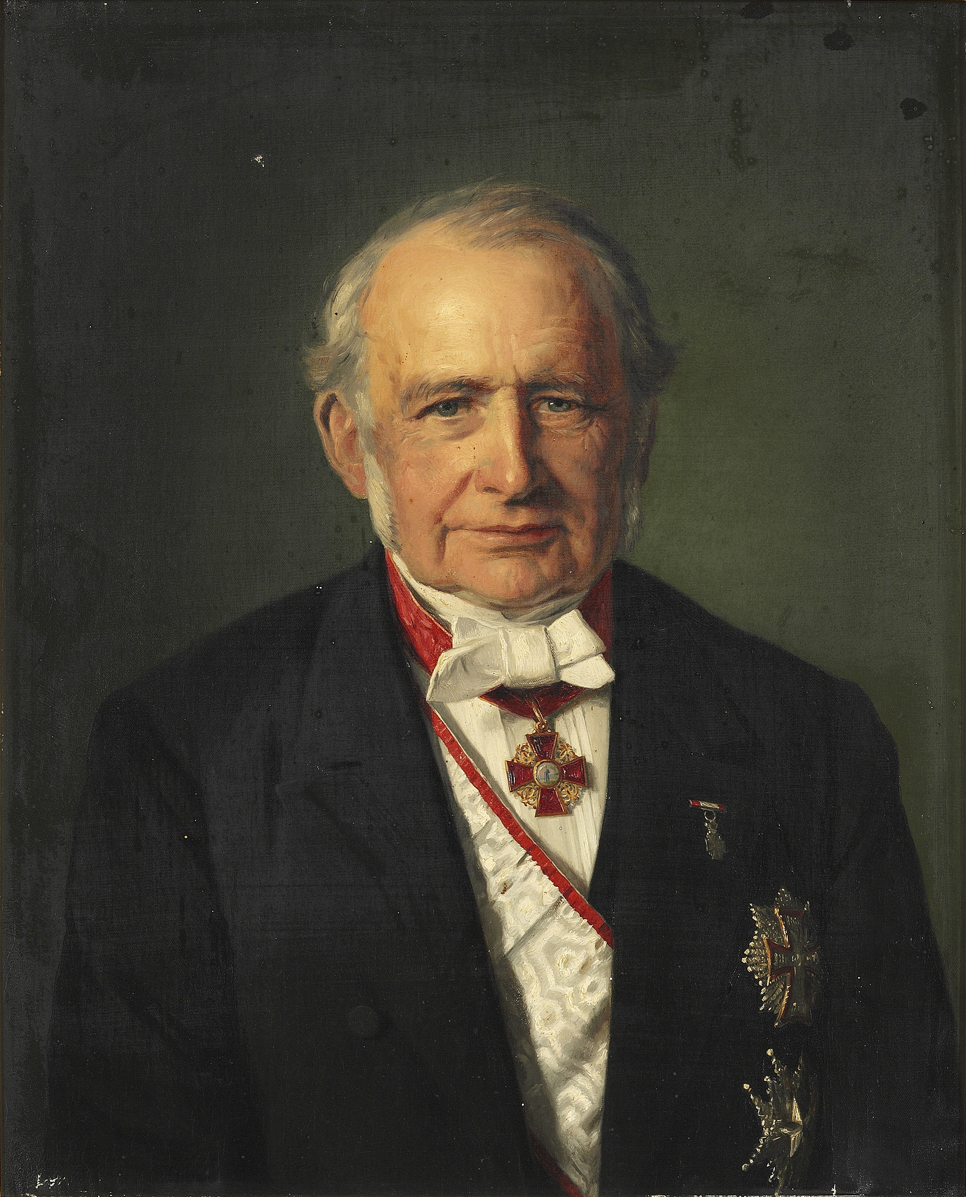 The King's private secretary Jens Peter Trap (1810–1885) in evening dress with the Order of the Dannebrog (Grand Cross, awarded 1875, plus the Silver Cross en miniature), the Swedish Order of the Polar Star and the Russian Order of Saint Anna